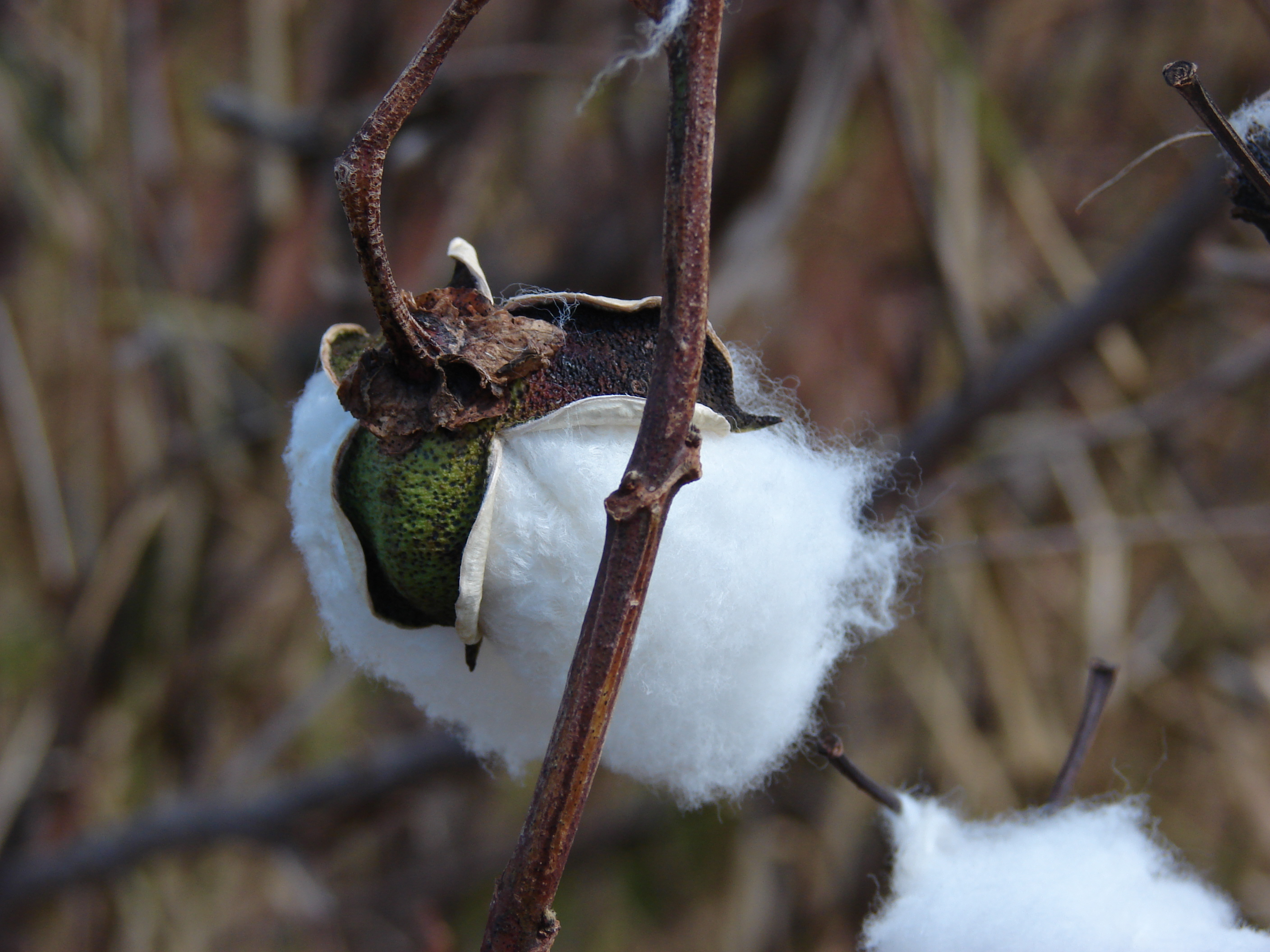 Gossypium barbadense (seeds and cotton). Location: Maui, Kaanapali train depot